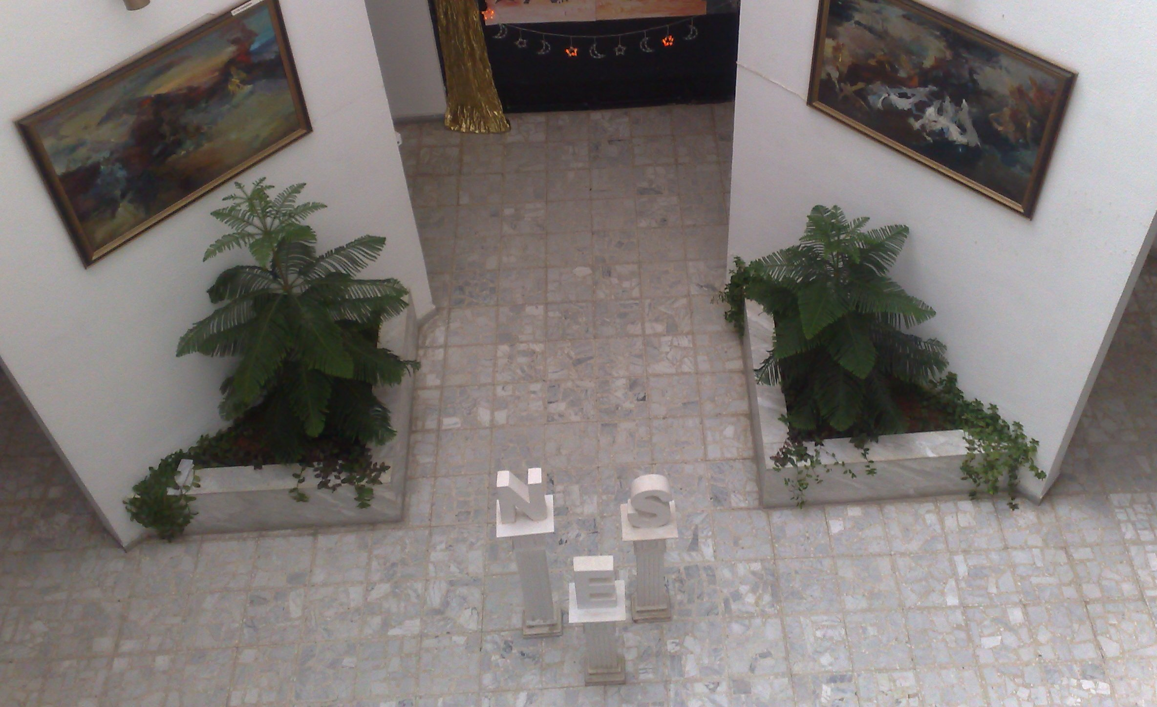 For the article New_English_School_(Jordan)